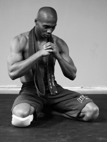 Marrese Crump martial arts photoshoot with Anesti Vega Elamintal 2009